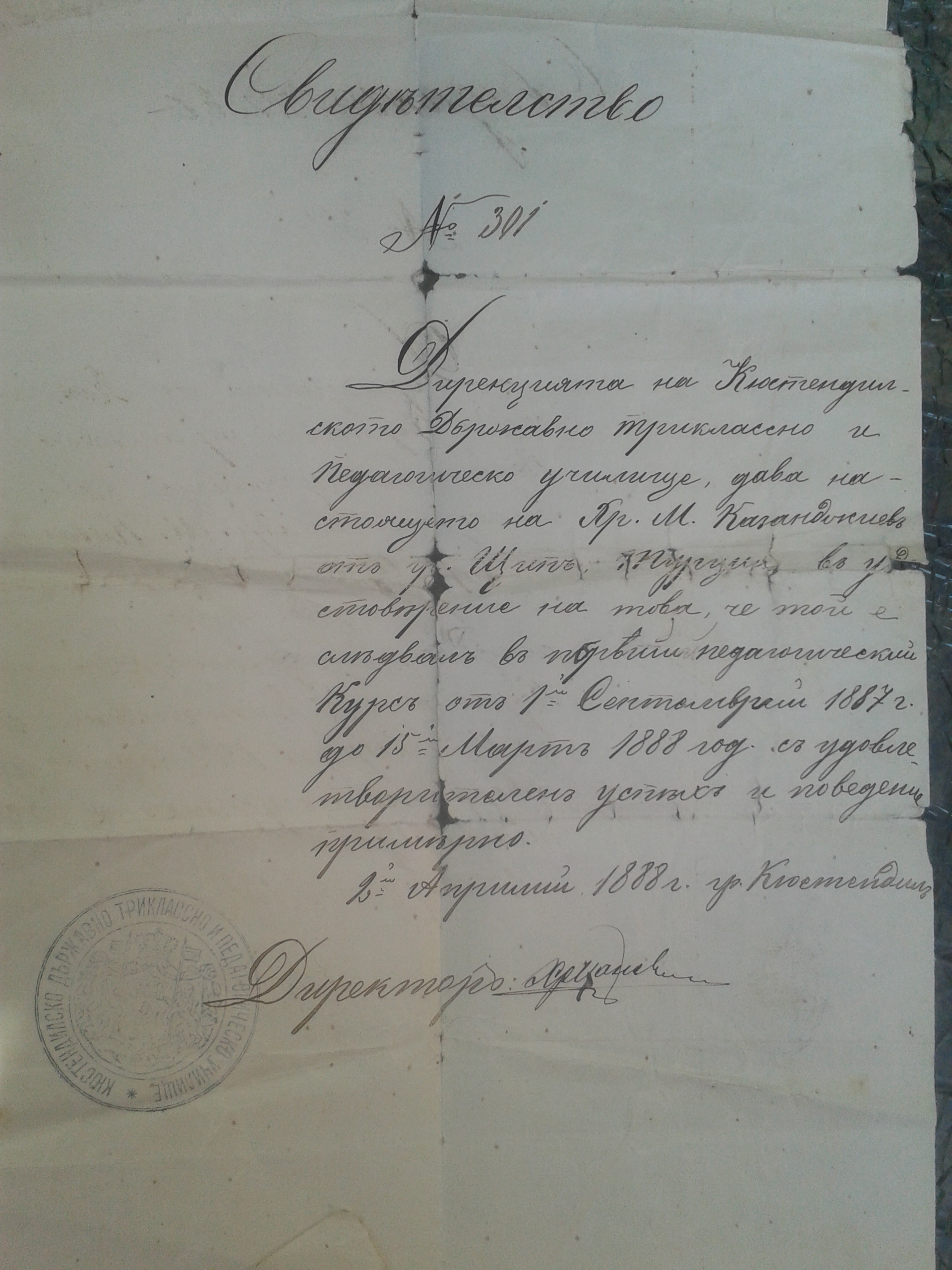 School Certificate of Hristo Kazandzhiev from Kyustendil Pedagogical School 1888